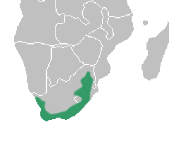 Corycium distribution map